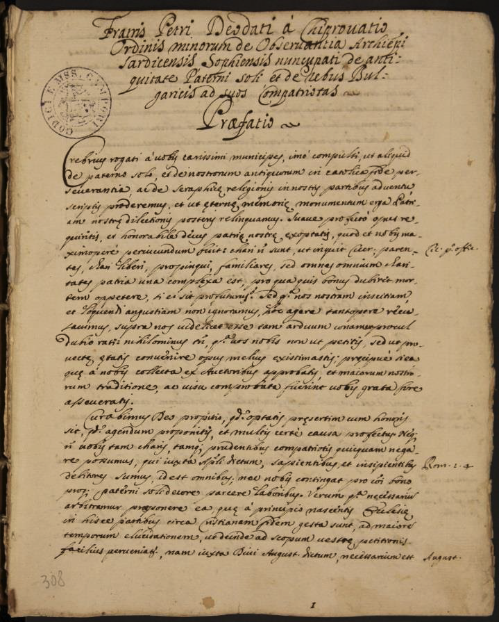 title page of Petar Bogdan's History of Bulgaria (c. 1667)